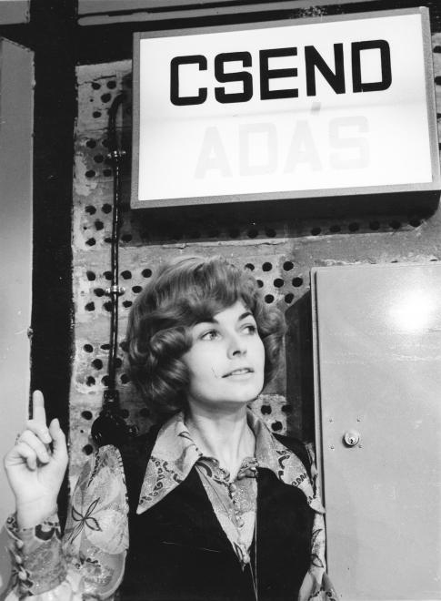 Marika Takács